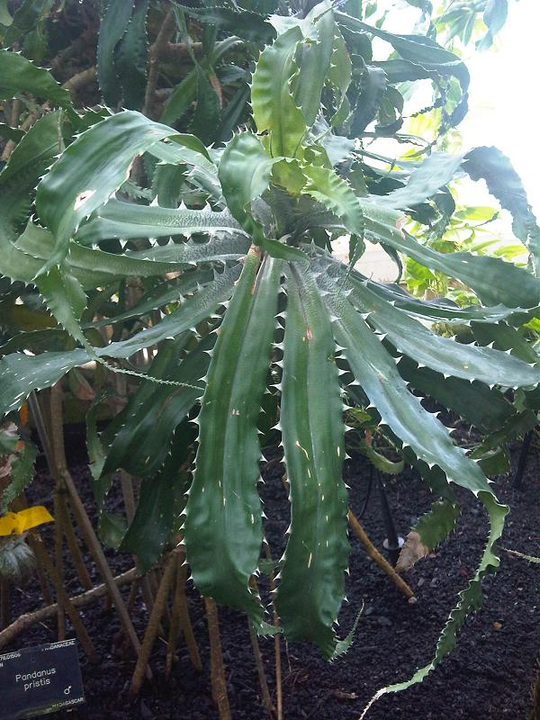 Pandanus pristis leaves at Kew Gardens, England.